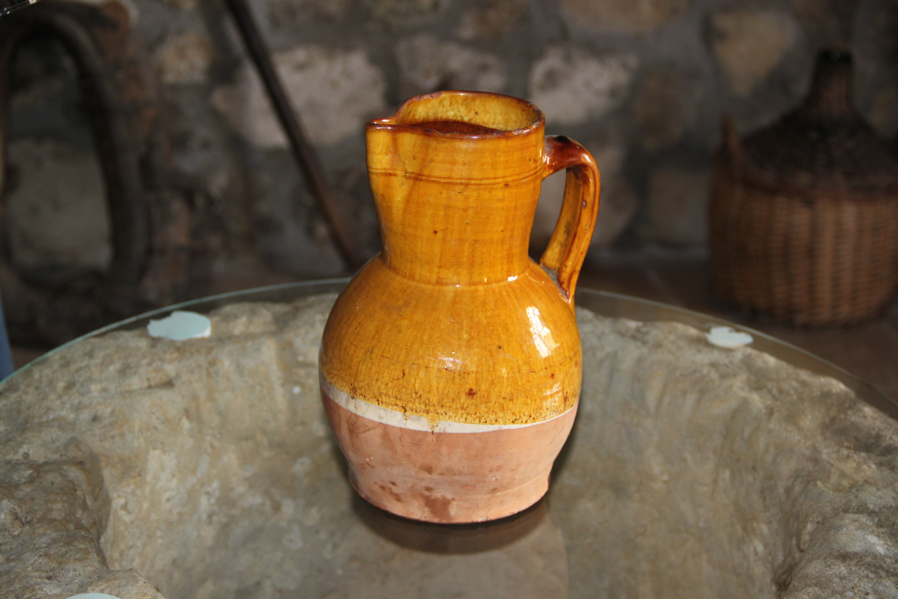 Glazed wine jars. Traditional pottery of Astudillo, province of Palencia, Castile and León, Spain.